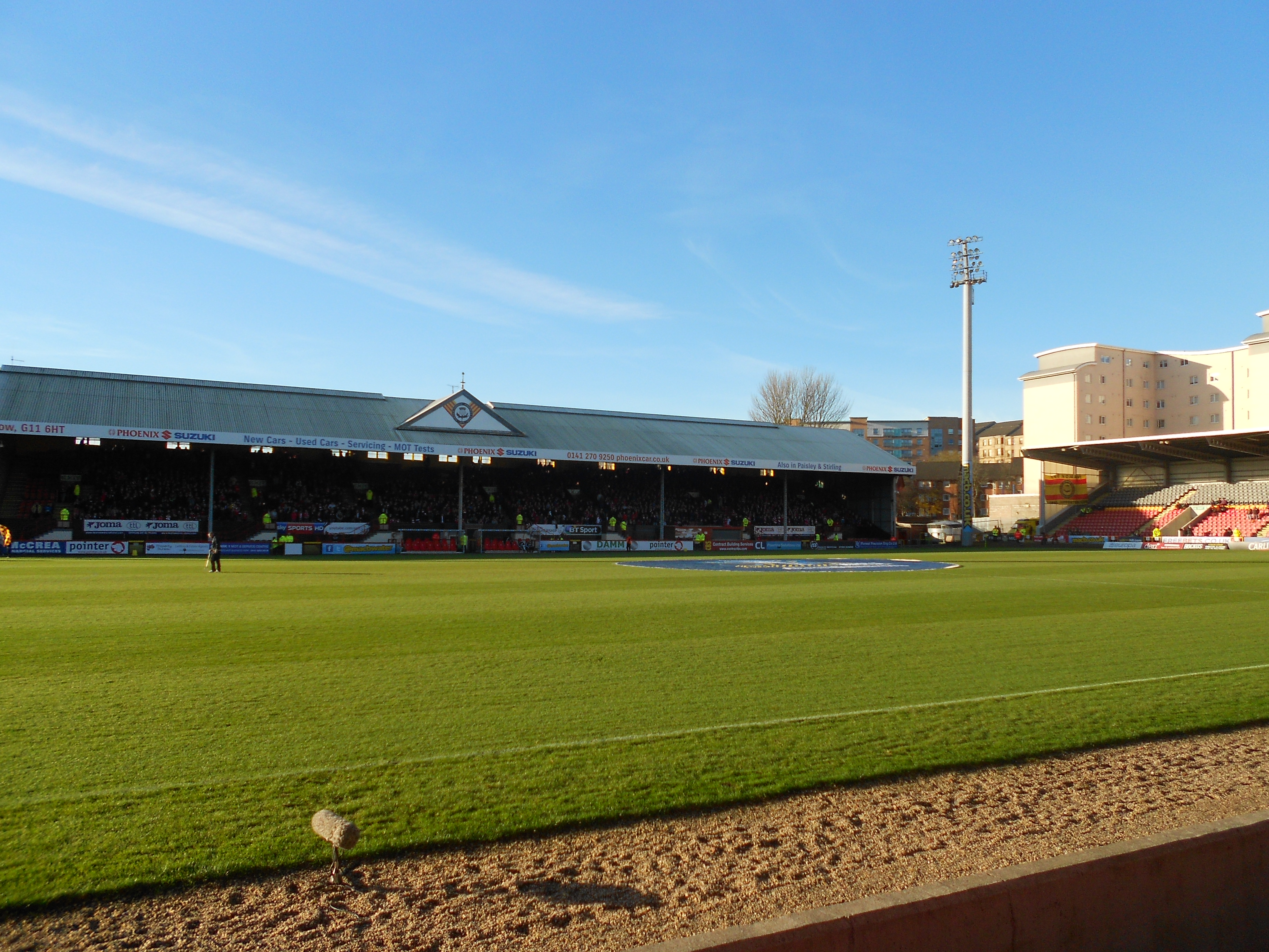 A beautiful day at Firhill.